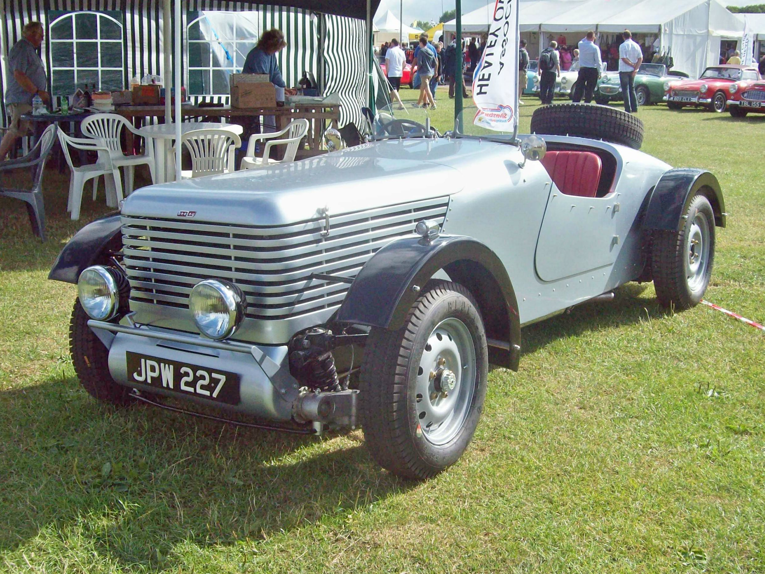 1948 Healey Duncan Drone (DVLA) first registered 30 October 1948 Silverstone Classic 28th July 2013